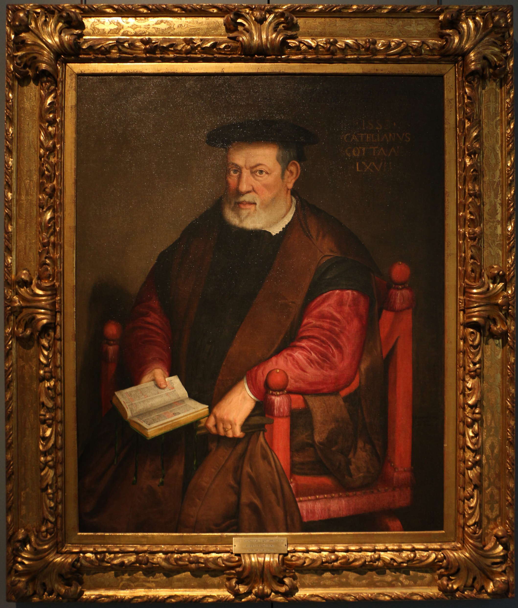 Portrait of Castellano Cotta